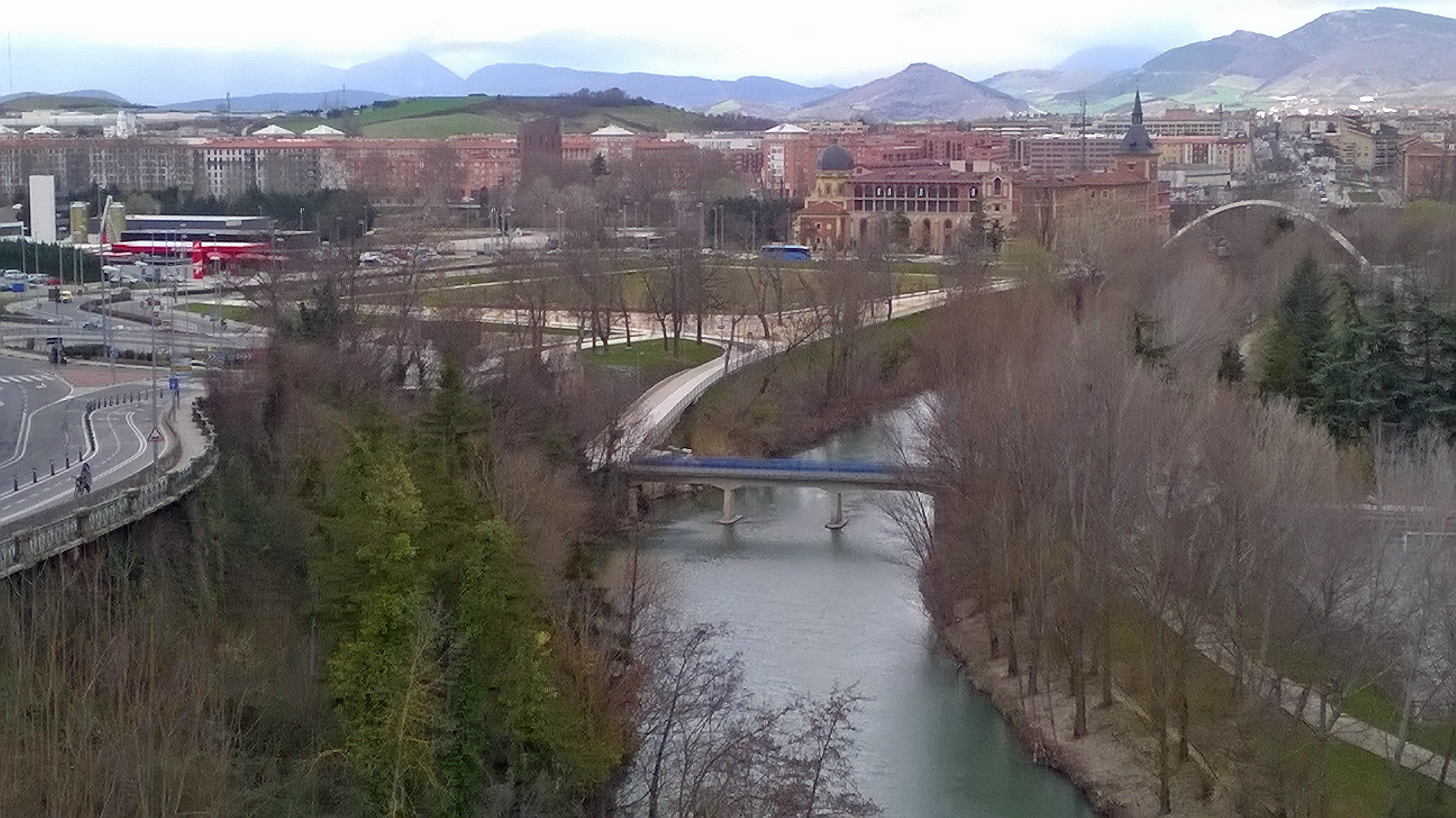 Plazaola bridge, Iruñea-Pamplona, Navarre, Basque Country